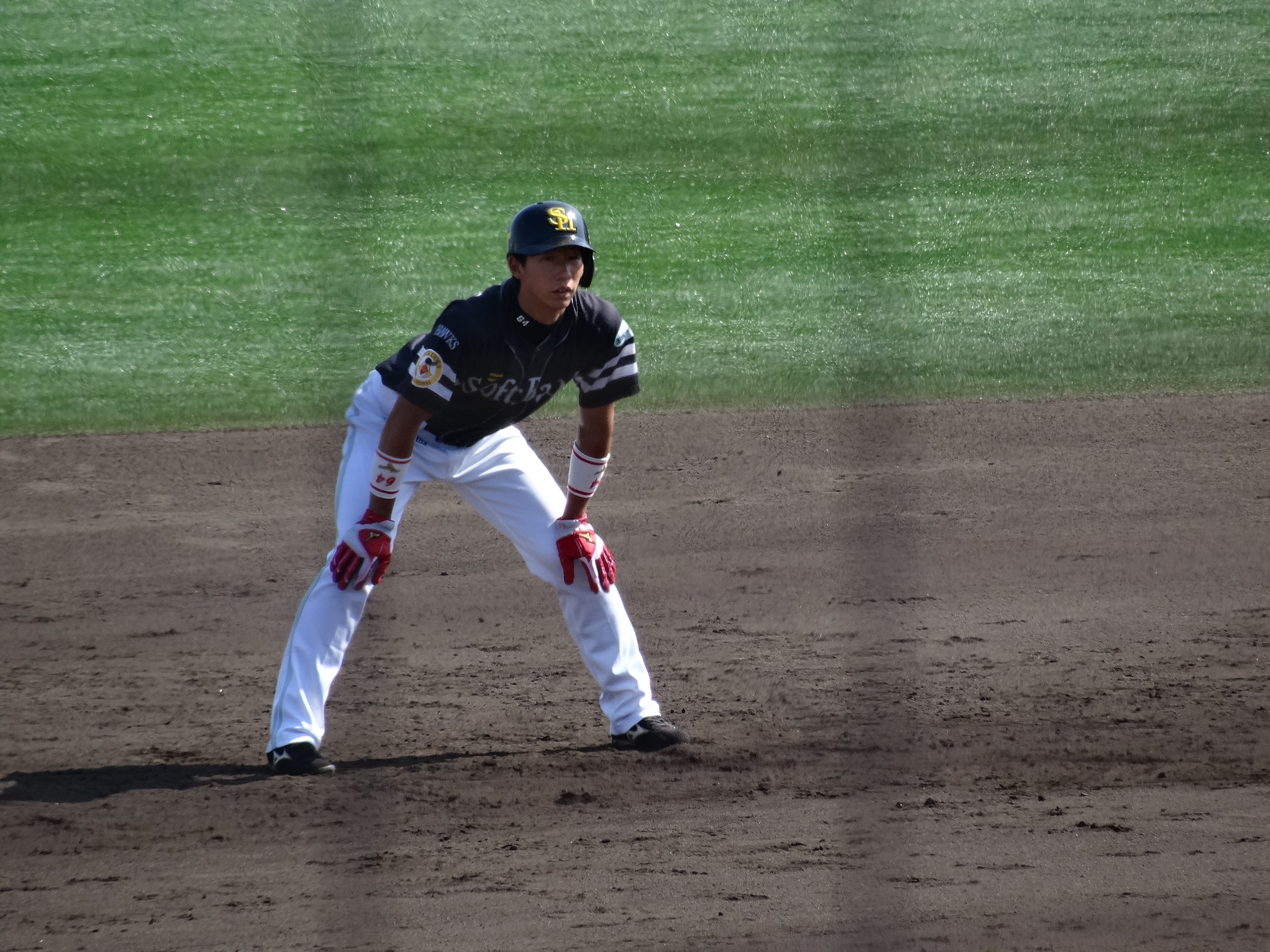 Yusuke Masago, outfielder of the Fukuoka SoftBank Hawks, at Kobe Sports Park Sub Baseball Ground.